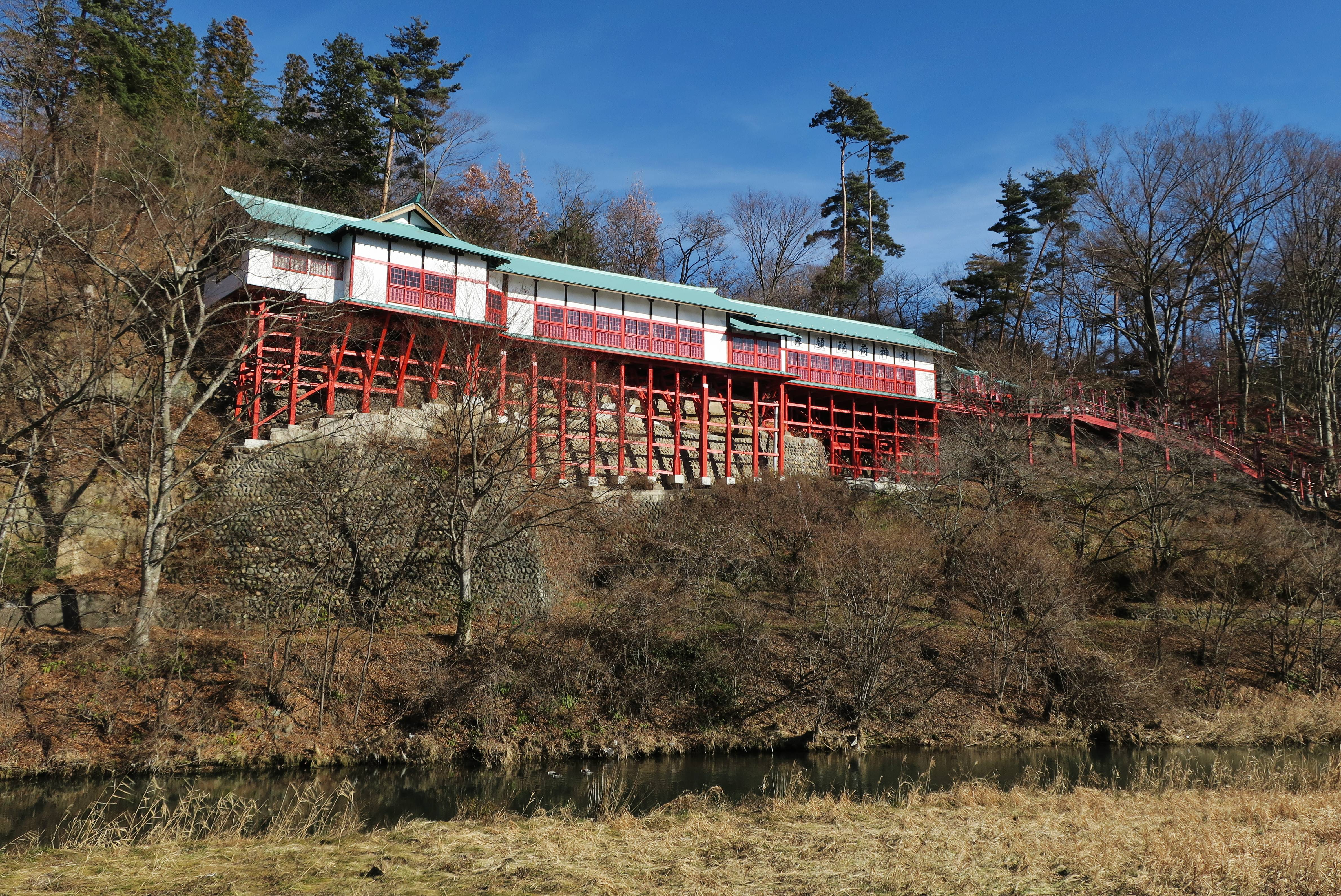 Hanazura-inari-jinja (Saku, Nagano).